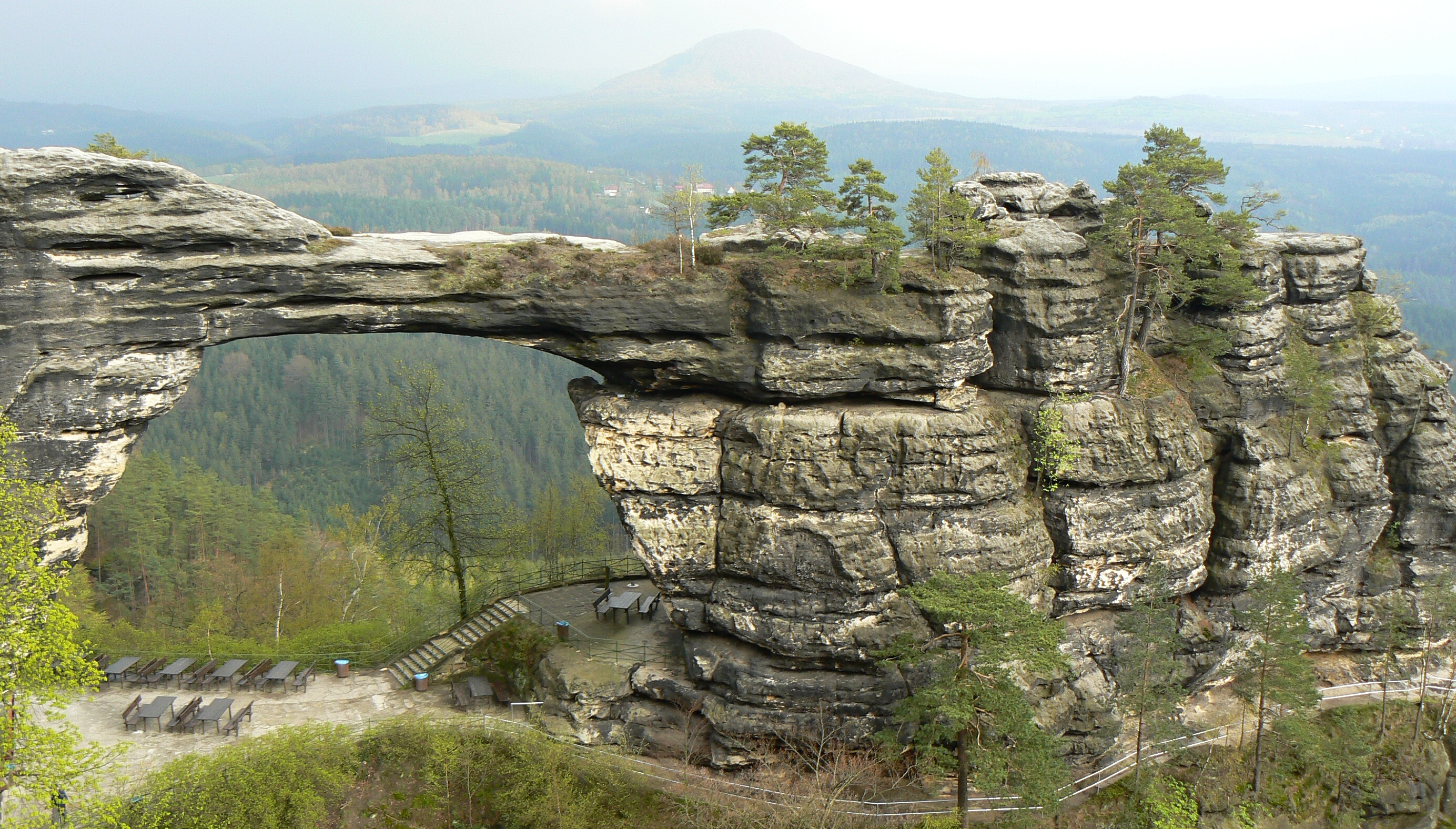 Pravčická brána (Prebischtor) in a part of national park Bohemian Switzerland and national natural monument, Děčín District